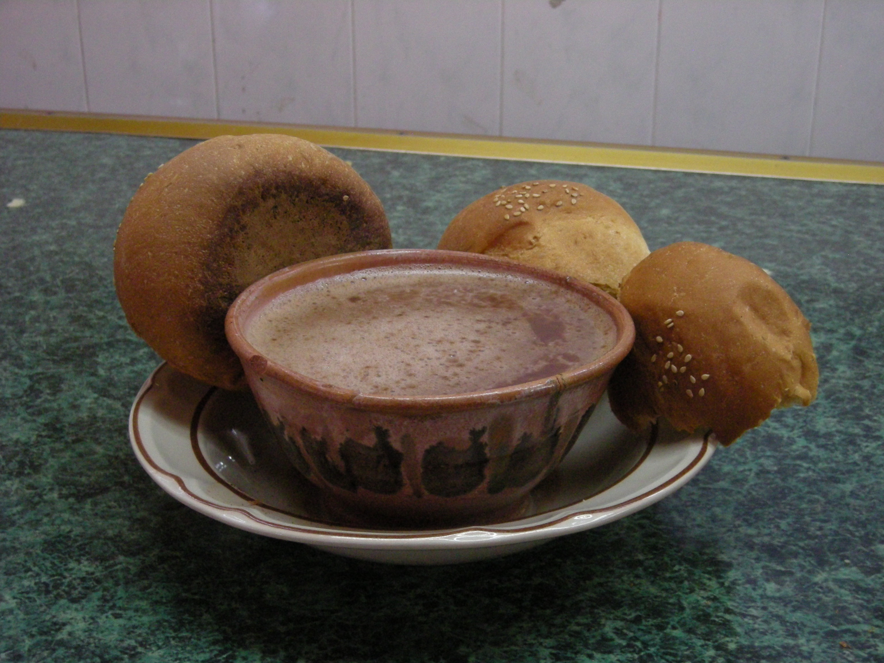 Oaxacan style hot chocolate served in a traditional clay cup and accompanied by "pan de yema" (egg bread)